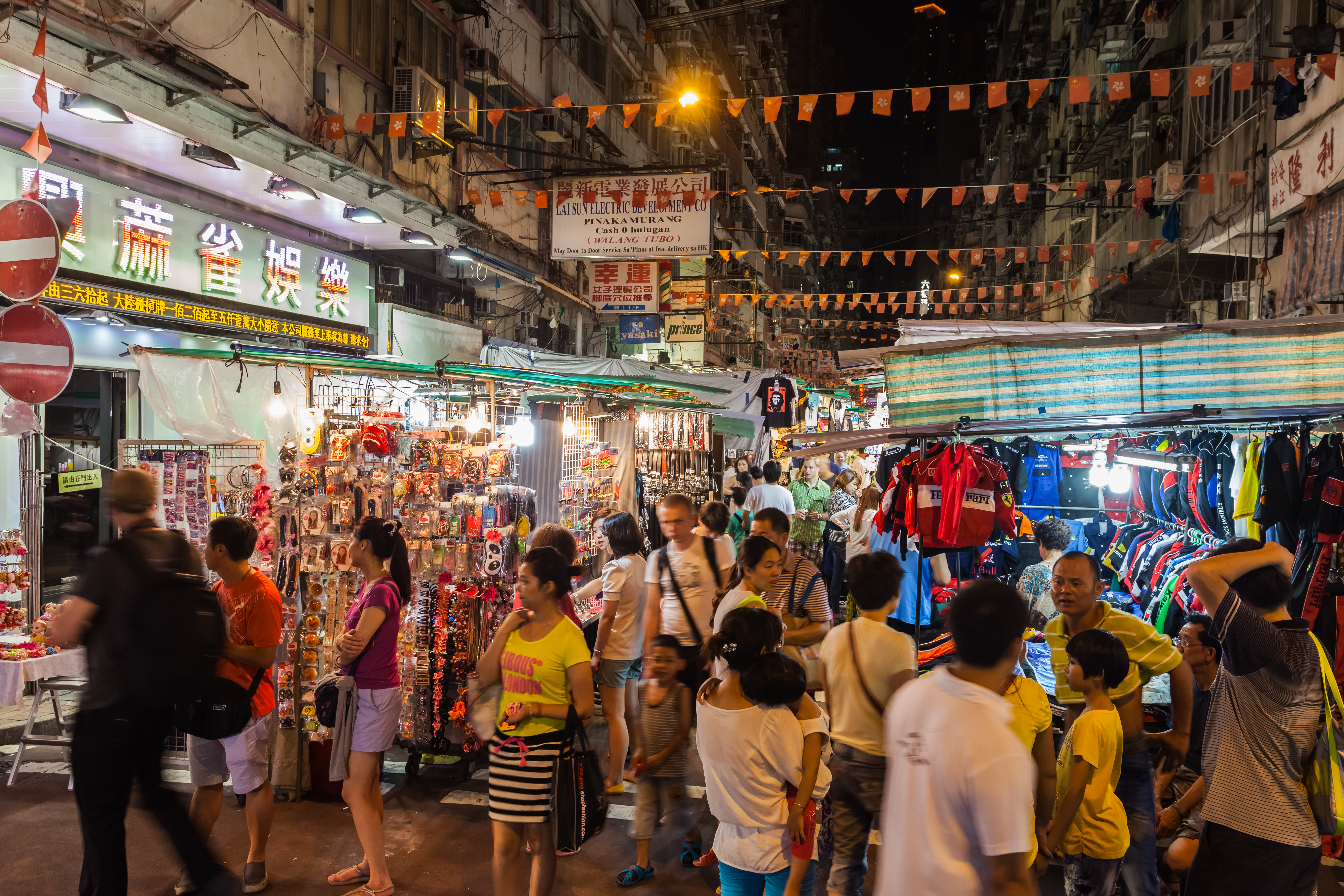 Market in Temple St., Hong Kong